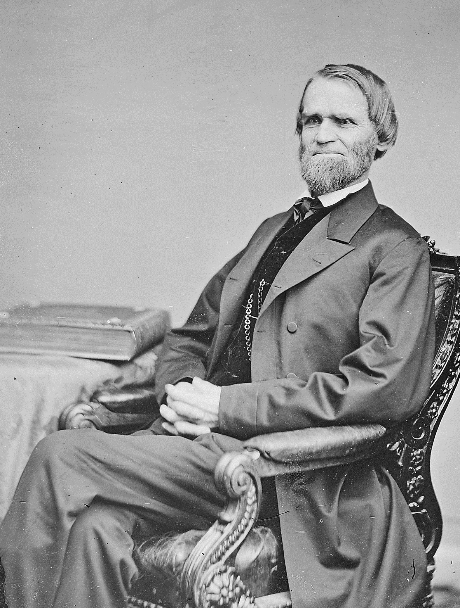 Reader W. Clarke was a politician from Ohio. This picture is cropped from File:Hon._Reader_Wright_Clarke,_Ohio_-_NARA_-_527299.jpg